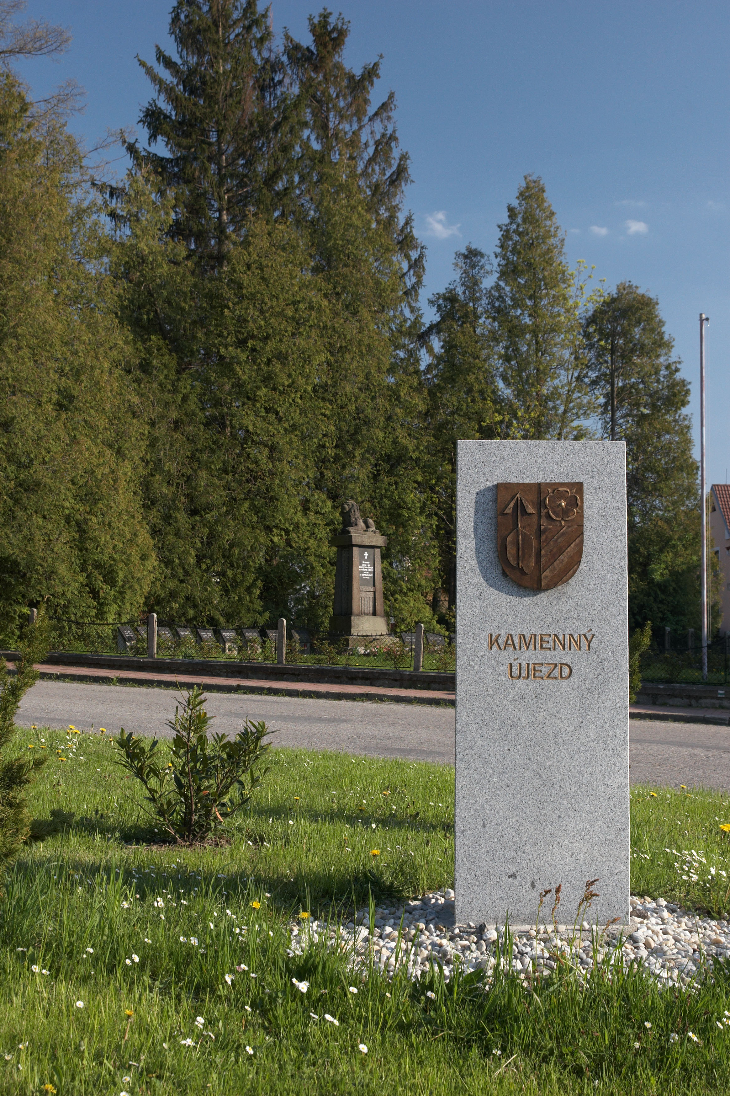 Coat of arms of Kamenný Újezd, war memorial in background